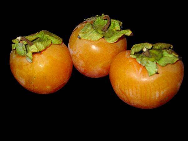 Kakis A Hachiya persimmon maybe? It looks too tall to be a Fuyu, but not as tall as most Hachiya persimmons.